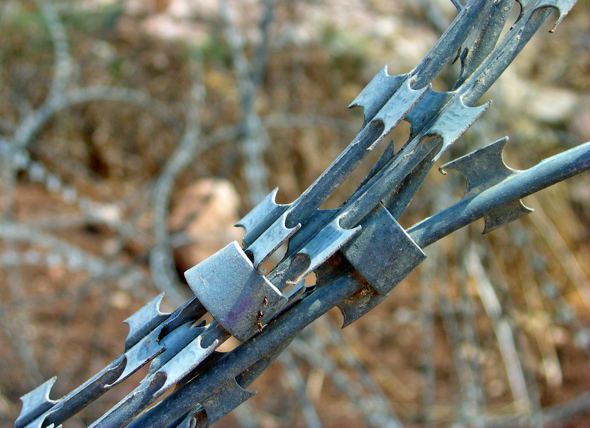 Barbed wire in Palestine